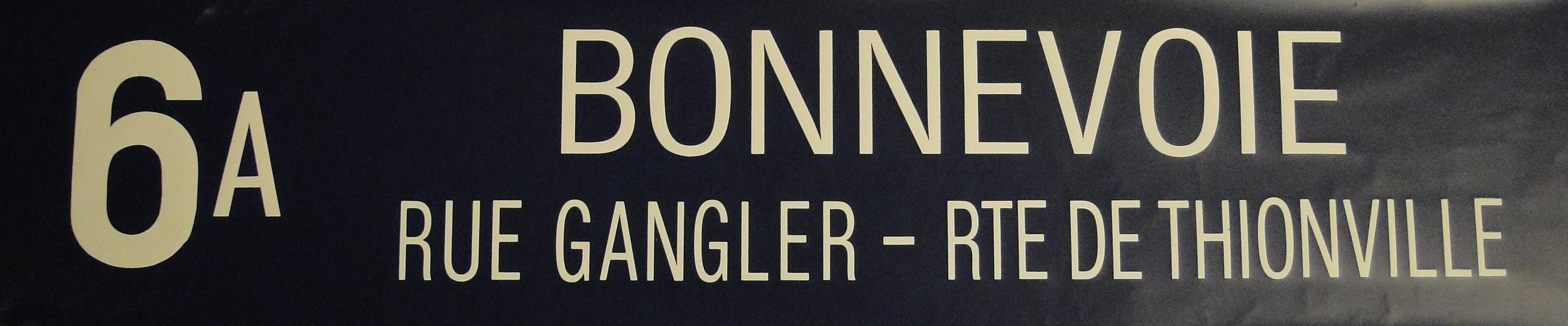 Luxembourg, AVL: old rollsign of former route 6A